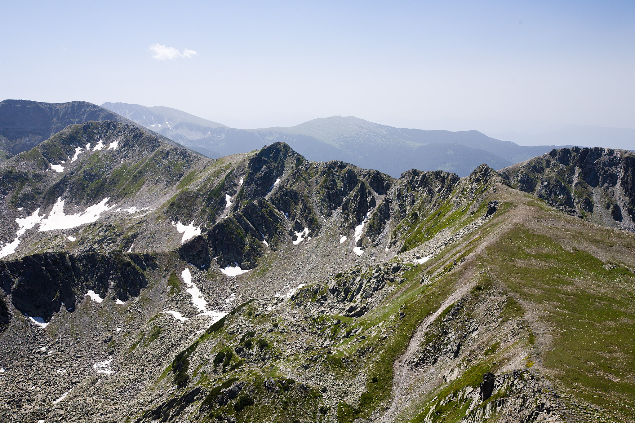 Karaulite ridge in Pirin mountain, Bulgaria